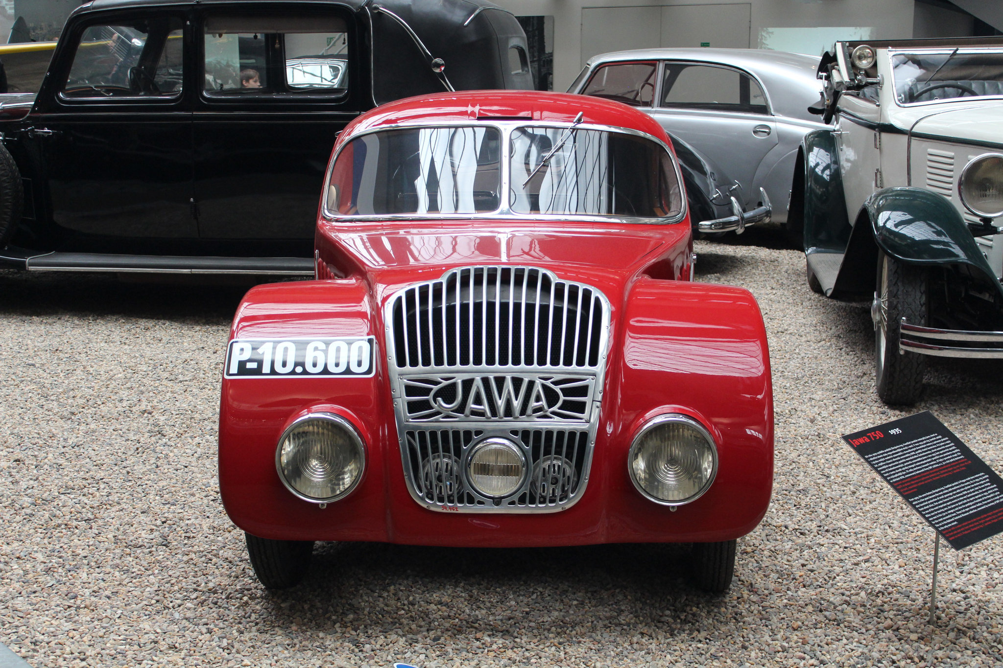 This image has been originally created as the illustration for Tjekkisk motorcykel entry in crosswords dictionary . It has been released under CC-BY-3.0 license.